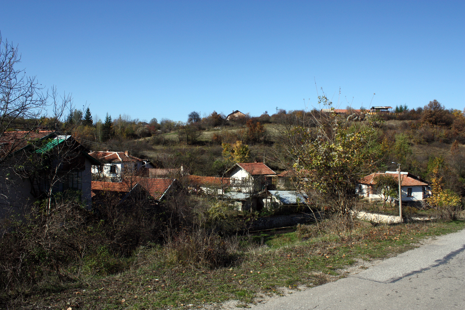 Exit frpom Prekraste. An ex-cooperative building on the right hilltop.